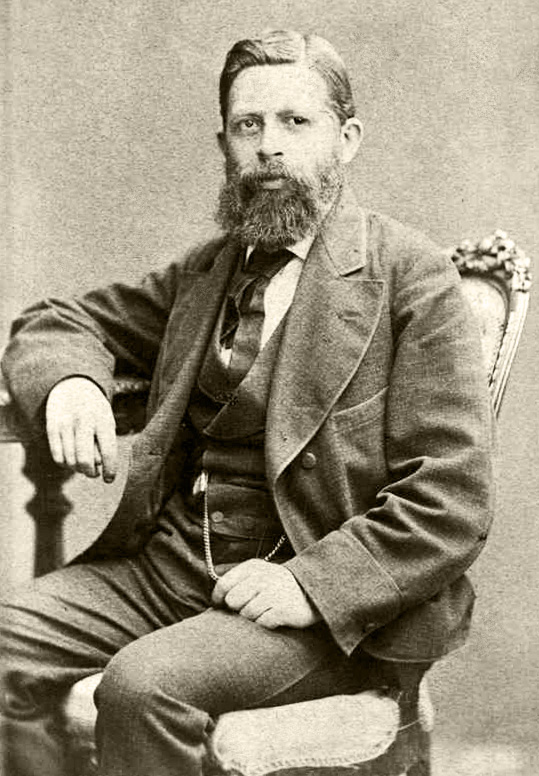 Picture of Abraham Sulzbach